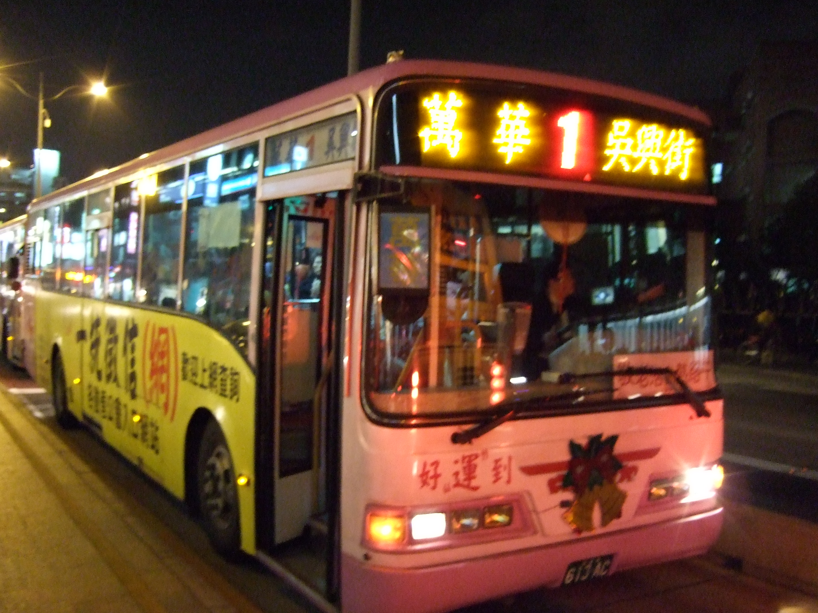 Shin-Shin Bus Route 1 613-AC